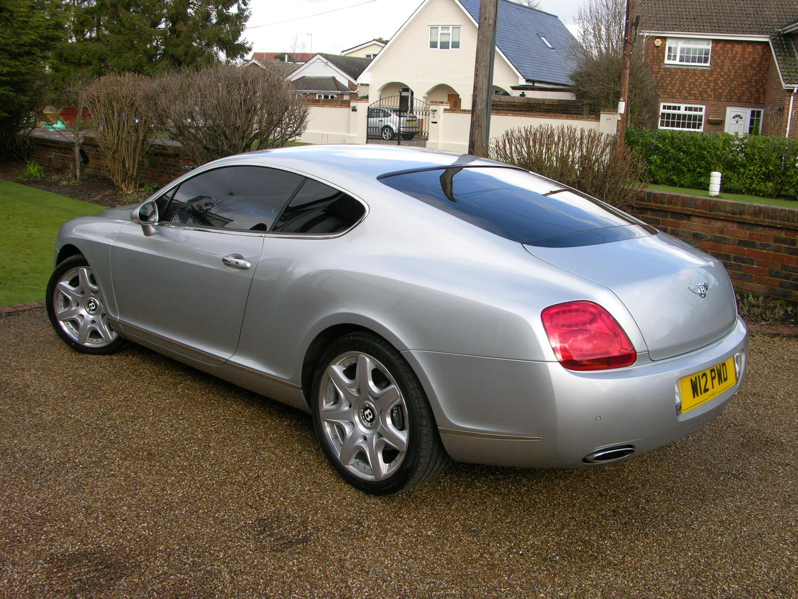 2005 Bentley Continental GT